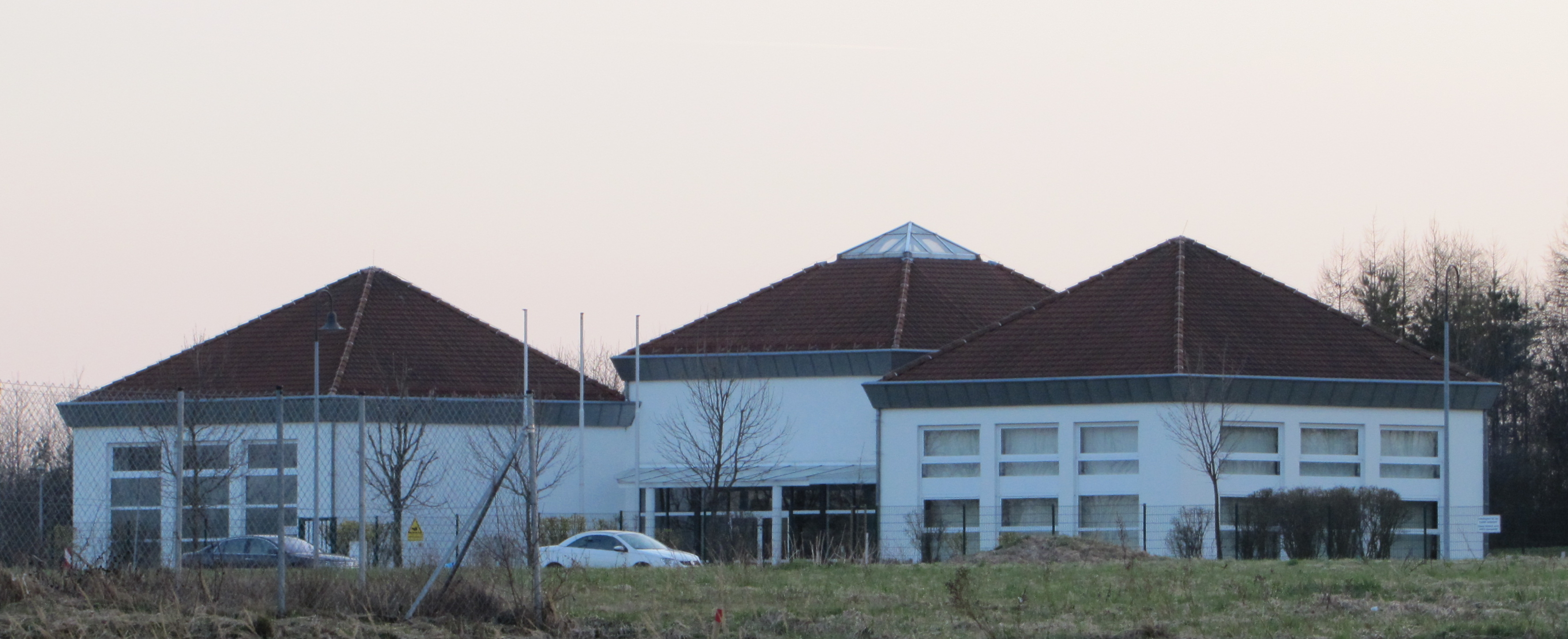 The headquarter of Magnussoft in Kesselsdorf.